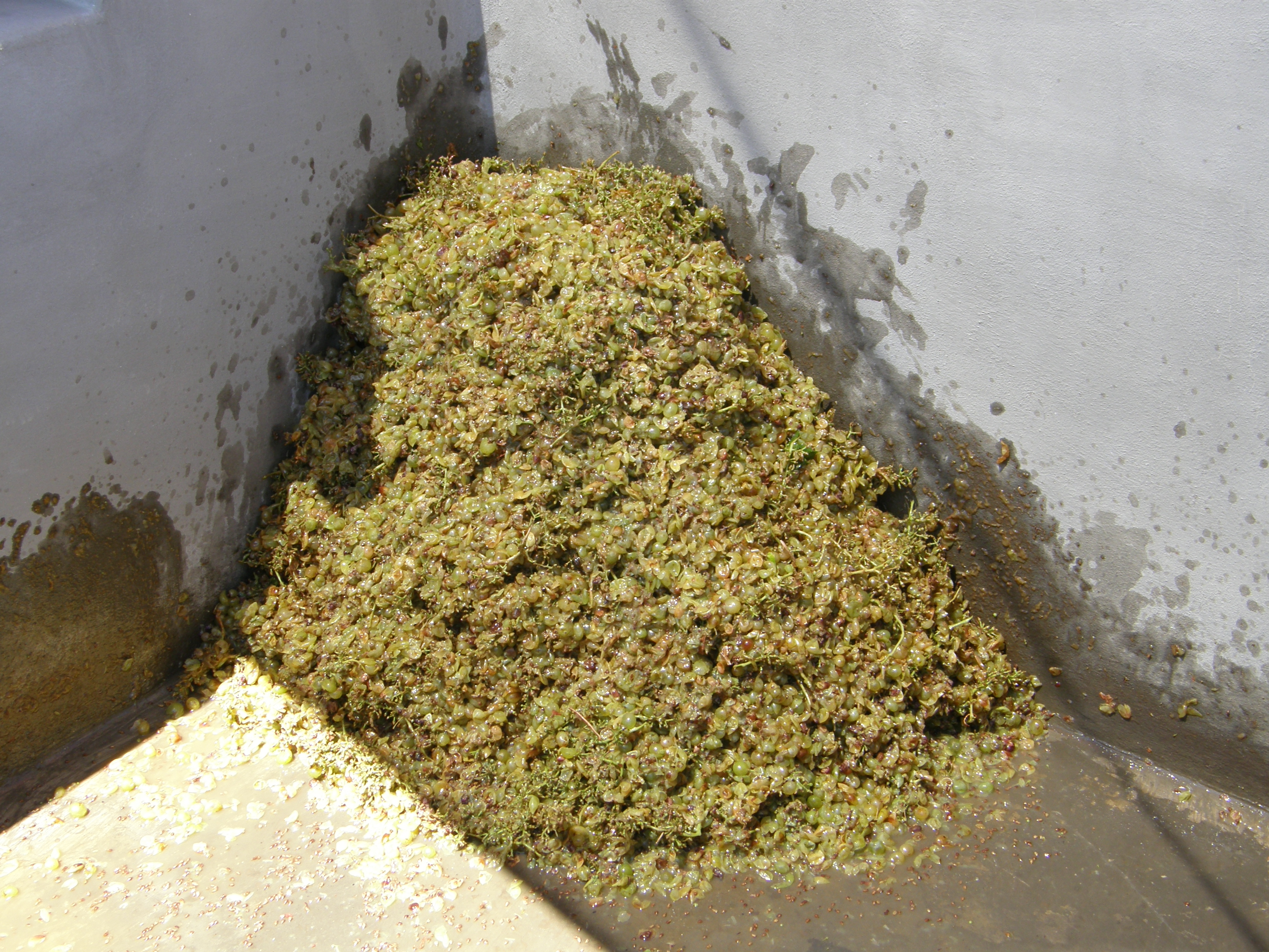 Wine pressing (likely Athiri grapes) at Gavrilos winery hill of Emporeio, Santorini.